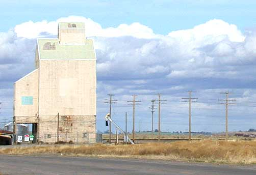 Grain elevator on the Fort Hall Indian Reservation in southeastern Idaho (taken Oct. 18, 2004)